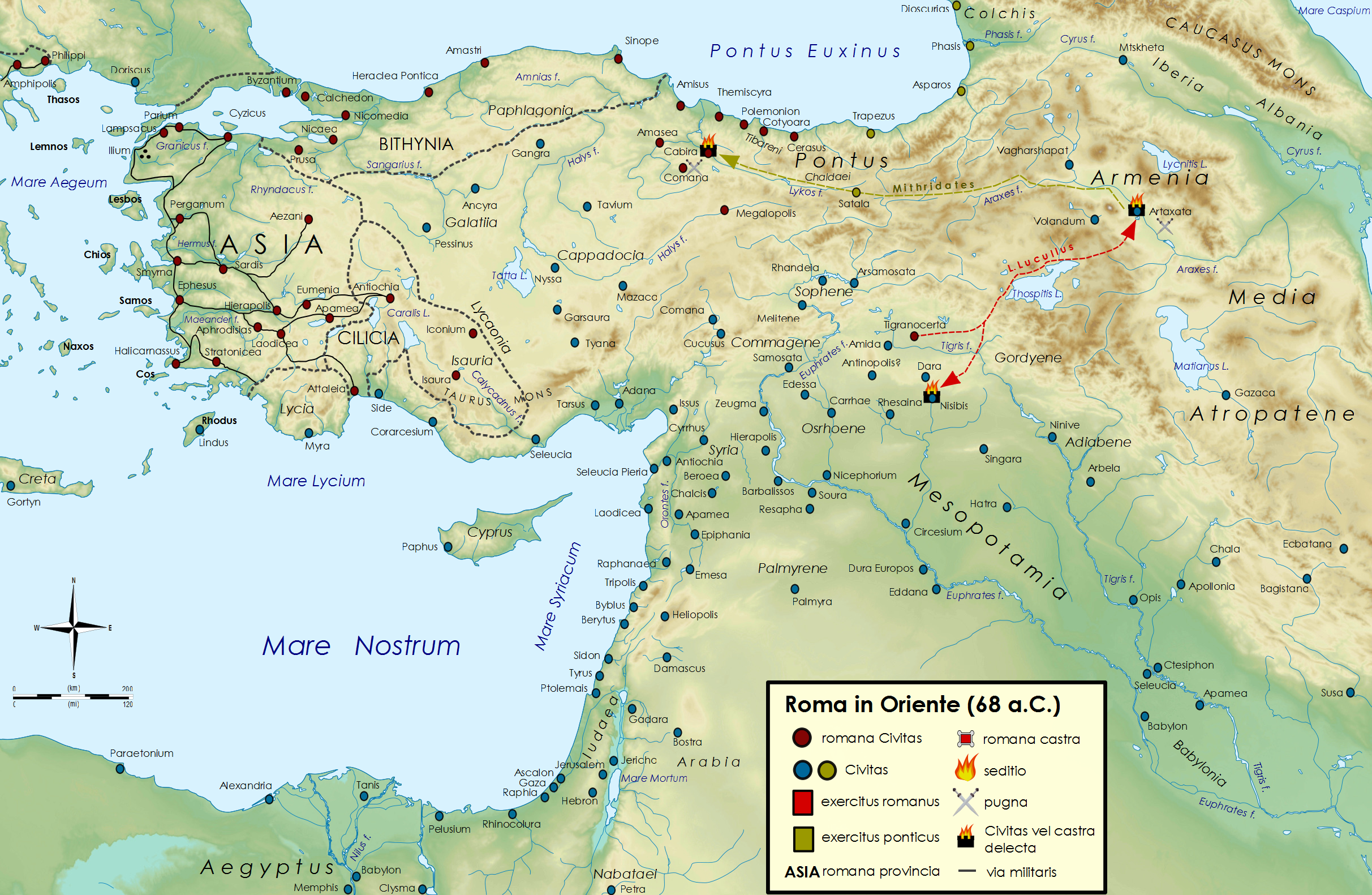 Roman republic in the Near East in 68 B.C., during the third Mithridatic War